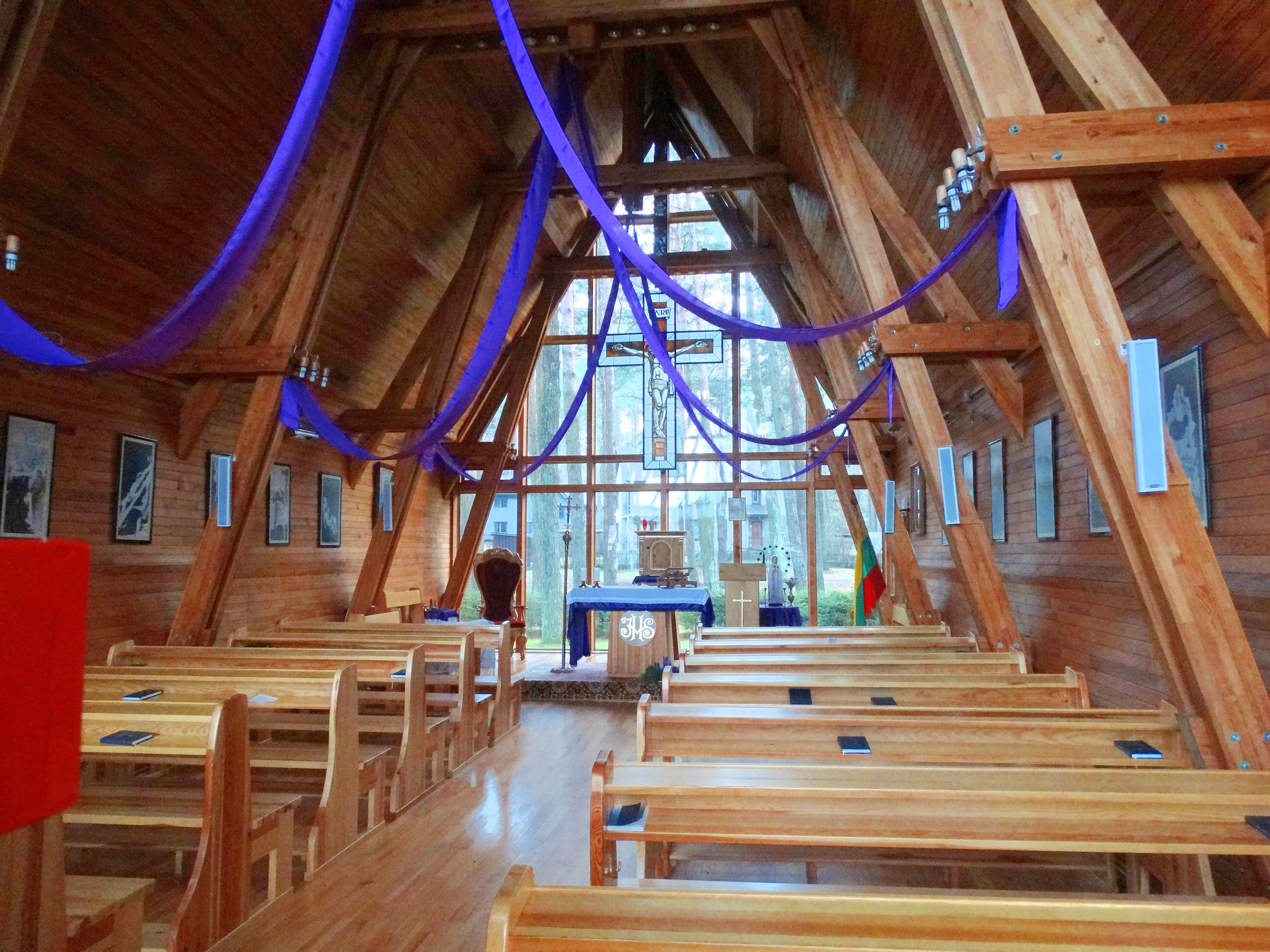 Kačerginė chapel, Kaunas District, Lithuania